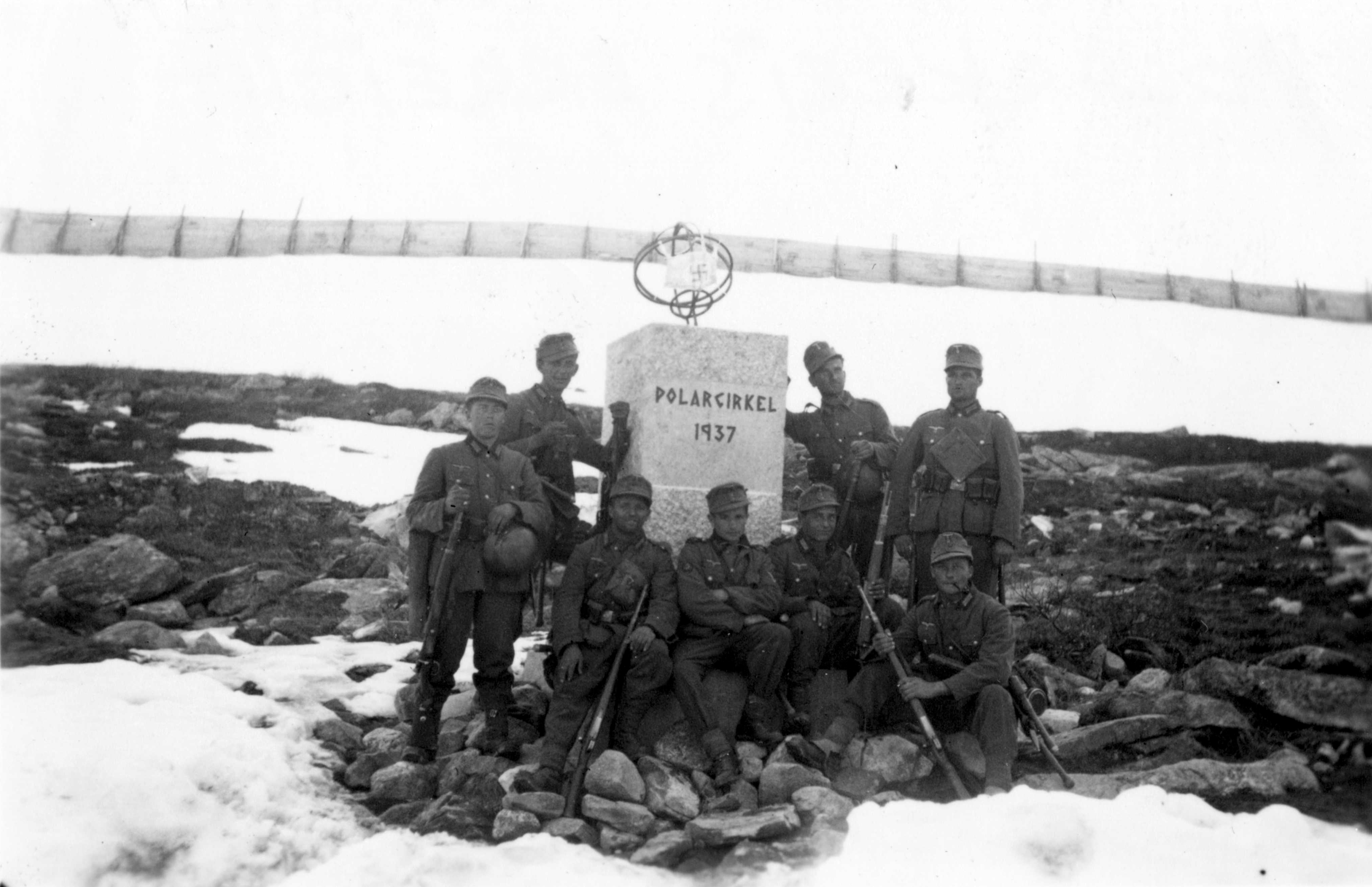 Swastika flag is set up on the sphere on the Arctic Circle monumnet. Meaning that soldiers from "Hermann Göring regiment" came at the same time as Rudis strap (7th Company). A soldier from Hermann Göring regiment planted the swastika pennant on the Arctic Circle.